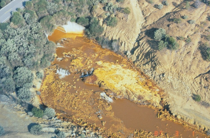 Acid mine drainage into Spring Creek, in Shasta County.